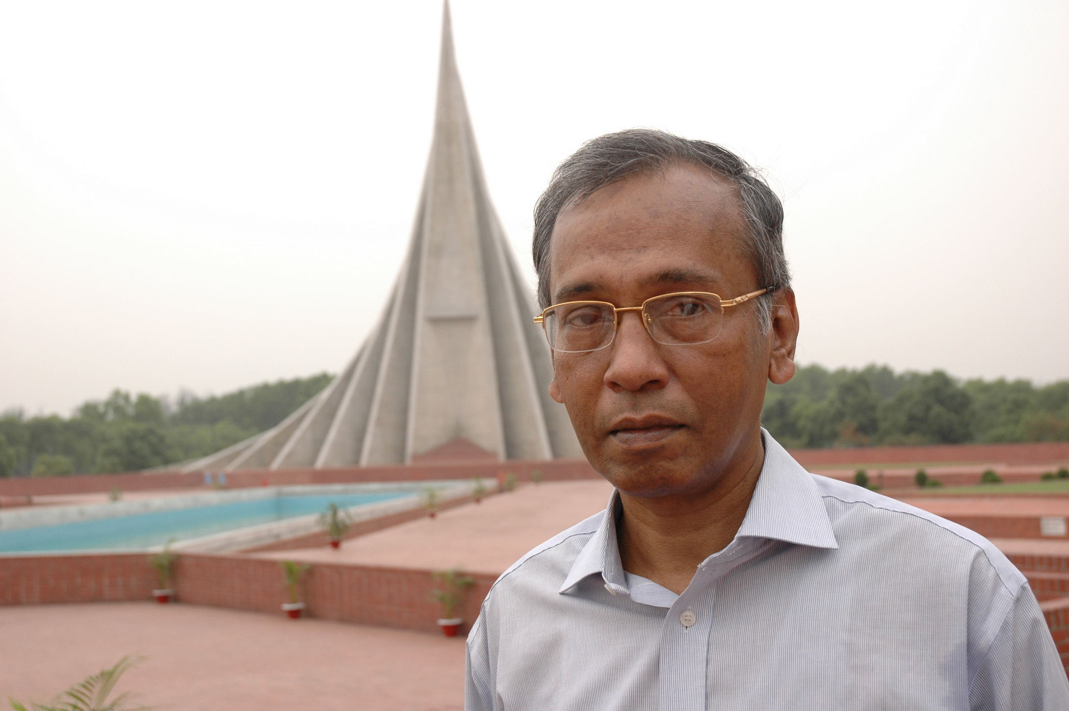 Syed Mainul Hossain Portrait 01